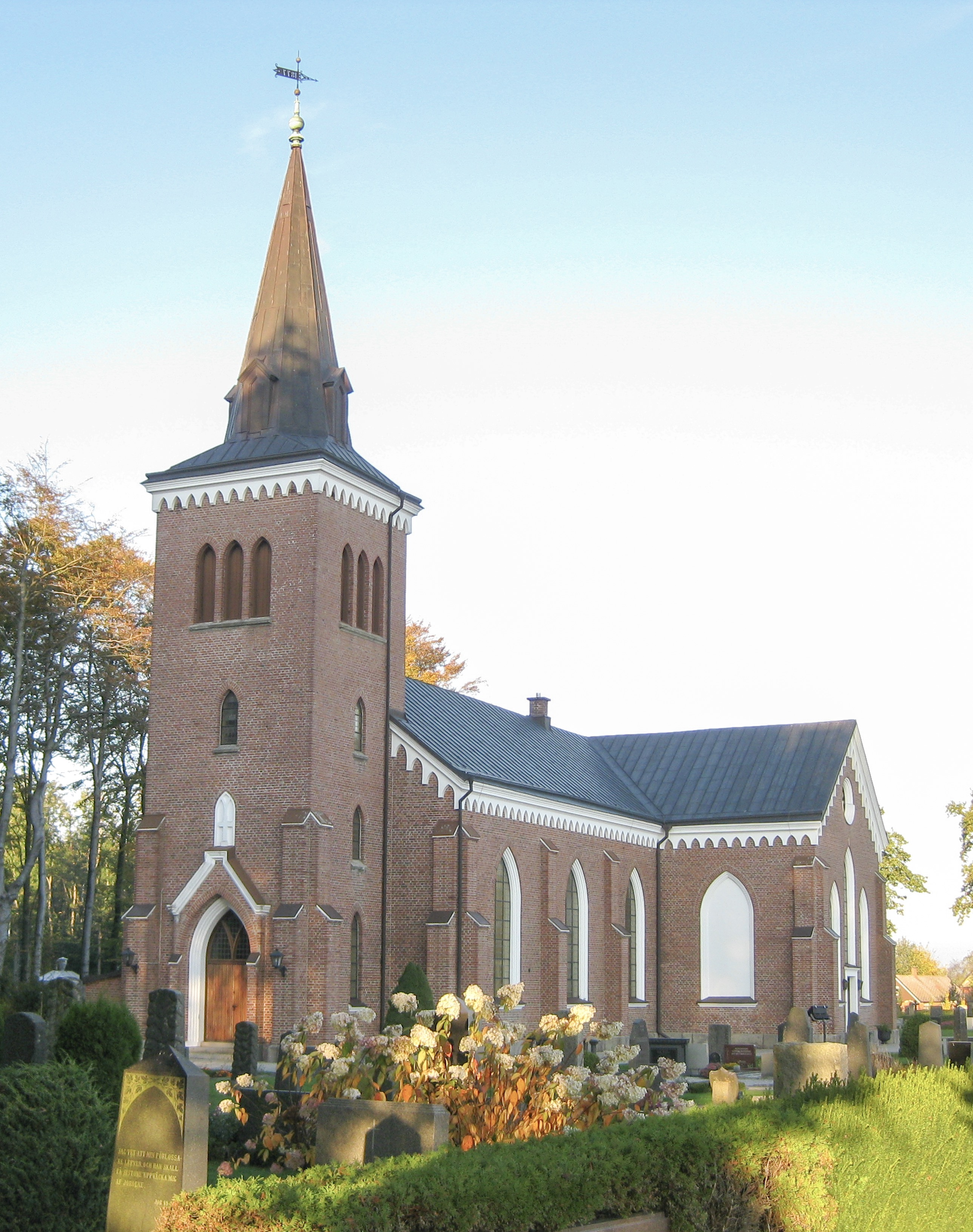 Västerstad church, Scania, Sweden